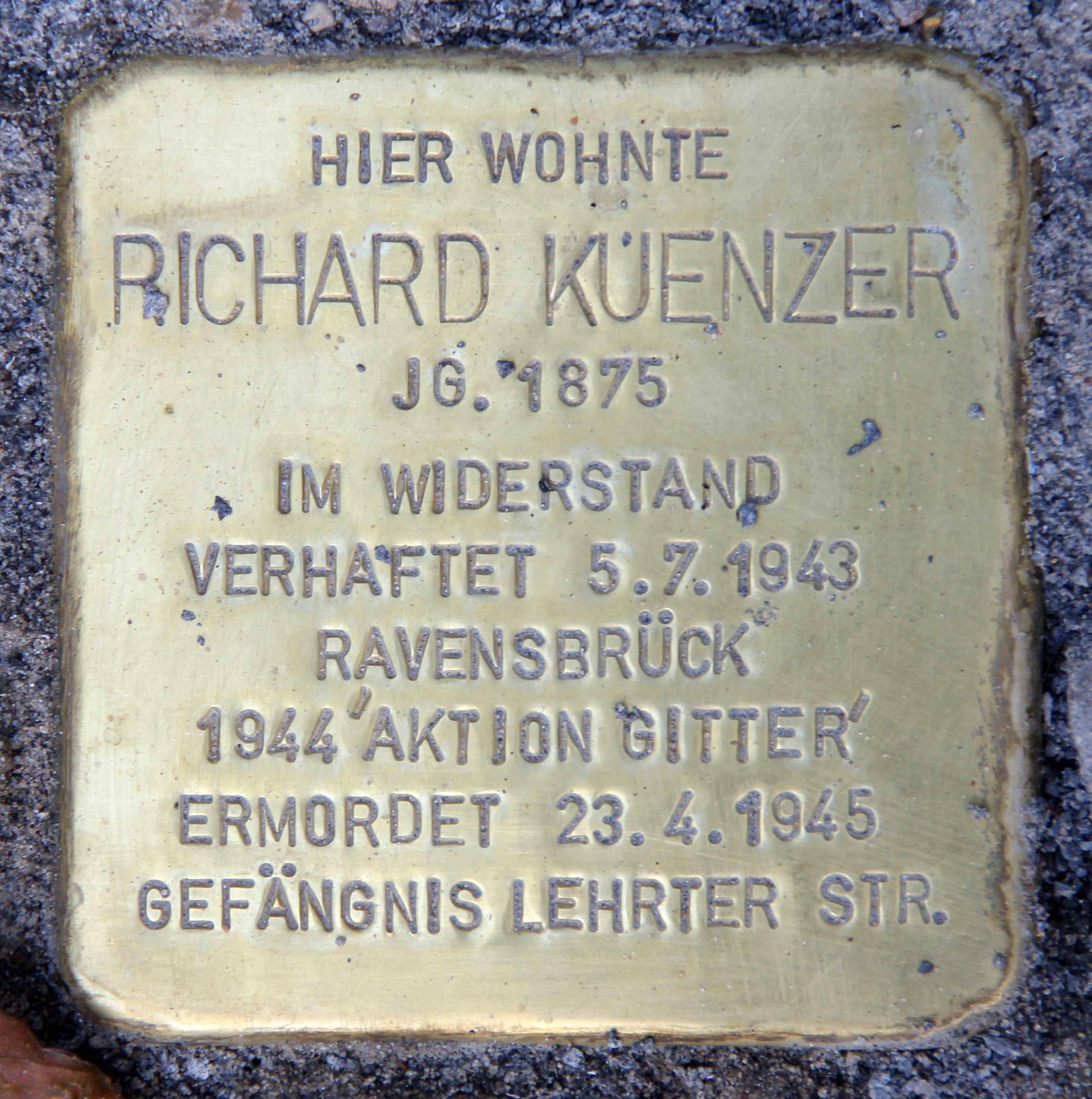 "Stolperstein" (stumbling block), Richard Kuenzer, Ulmenallee 29, Berlin-Westend, Germany